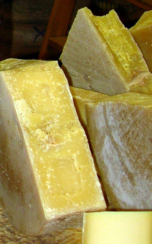 Bitto cheese